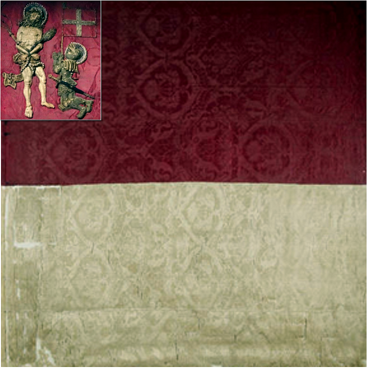 Silkbanner with embroidered "Zwickelbild" (enlarged) awarded 1512 by Pope Julius II. to Solothurn, catholic entity of the Old Swiss Confederation.